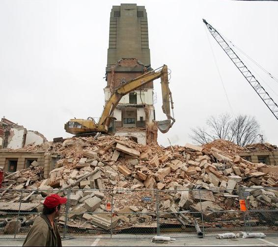 Seneca County Courthouse 01 26